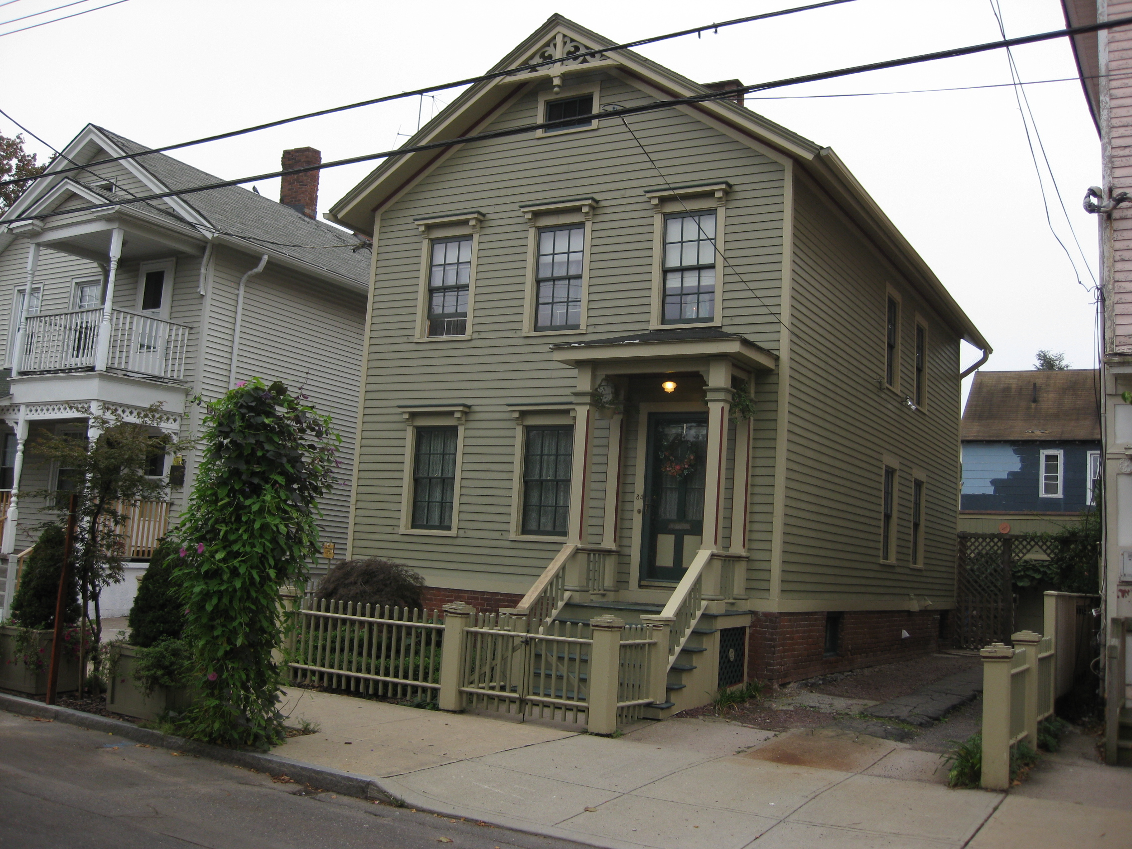 1871 Lane-Hubbard House, Second Street, City Point, New Haven, Connecticut. First owner, Charles Lane, was an oyster "packer" who who worked on South Water Street.